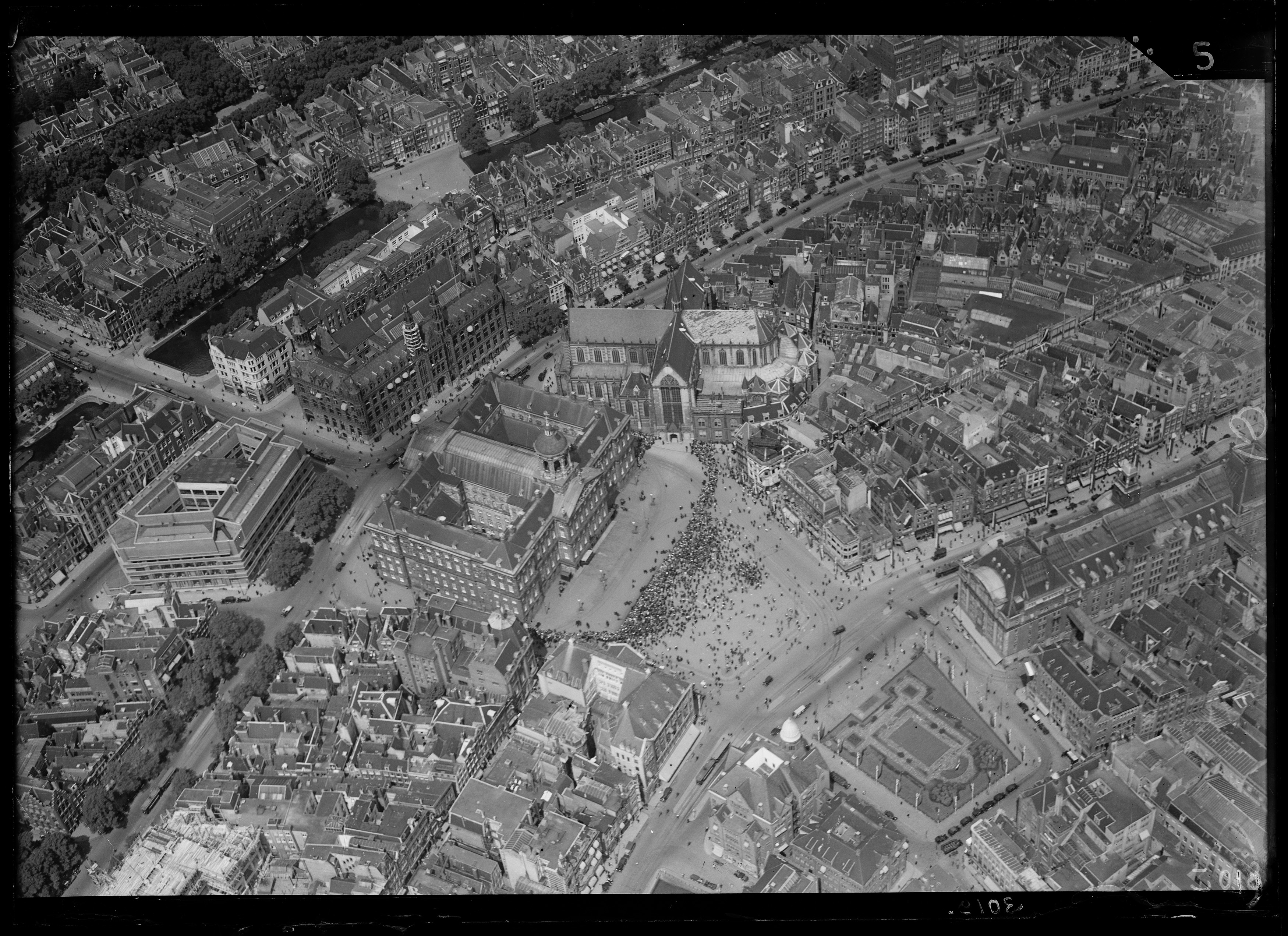 Aerial photograph of Amsterdam, The Netherlands